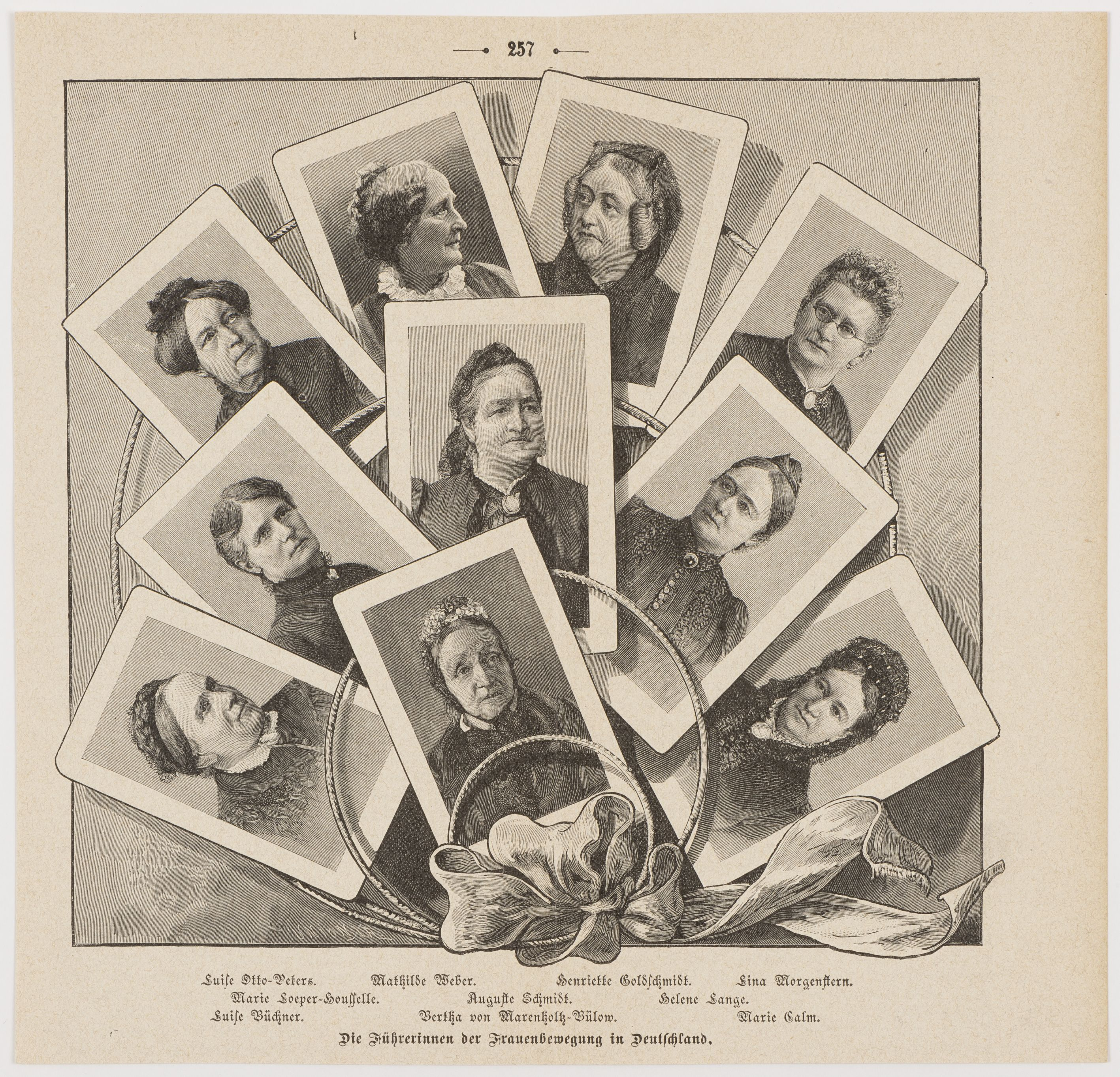 "Die Führerinnen der Frauenbewegung in Deutschland" (leaders of the women's movement in Germany), page from "Die Gartenlaube. Illustriertes Familienblatt", 1894, No. 15, p. 257. Pictured are Louise Otto-Peters, Mathilde Weber, Henriette Goldschmidt, Lina Morgenstern, Marie Loeper-Housselle, Auguste Schmidt, Helene Lange, Luise Büchner, Bertha von Marenholtz-Bülow, Marie Calm. Photo of page in repository of Archiv der deutschen Frauenbewegung (Archive of German Women's Movement), Kassel, Signatur A-F2_00032. Photographer: Horst Ziegenfusz on behalf of Historisches Museum Frankfurt (Historical Museum Frankfurt). Published in Dorothee Linnemann (Hrsg.): Damenwahl! 100 Jahre Frauenwahlrecht. Begleitbuch zur Ausstellung. Societäts-Verlag, Frankfurt am Main 2018, ISBN 978-3-95542-306-3, p. 39.